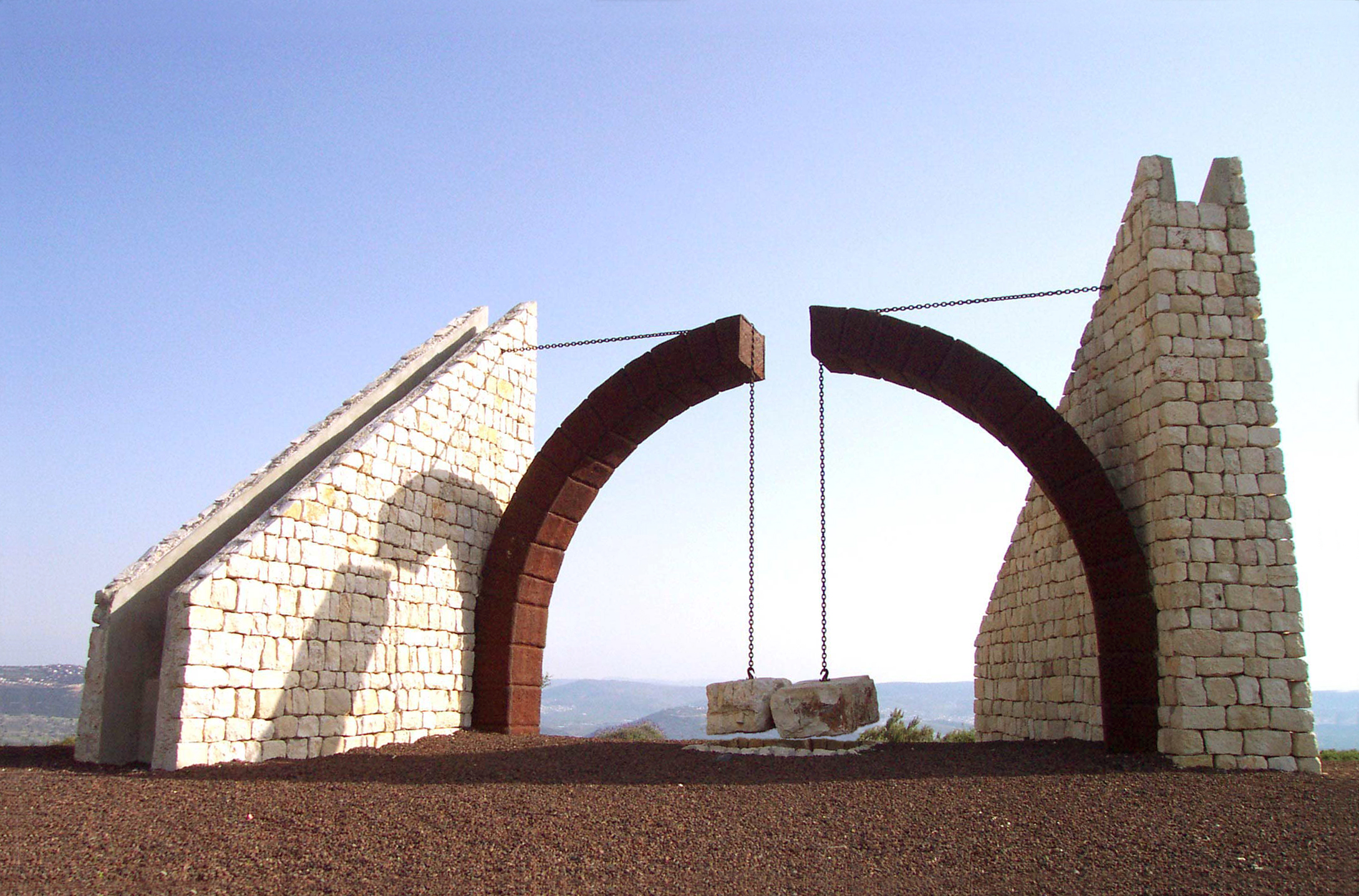 Stone, cast iron, steel, water 20 x 22.5 x 24 feet Located at entrance to town of Lavon, Israel; Commissioned by The Open Museum of Tefen Budget/Price: $100,000.